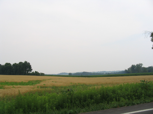 photo of Van Buren Countryside in Van Buren, NY, taken by me on July 10, 2007